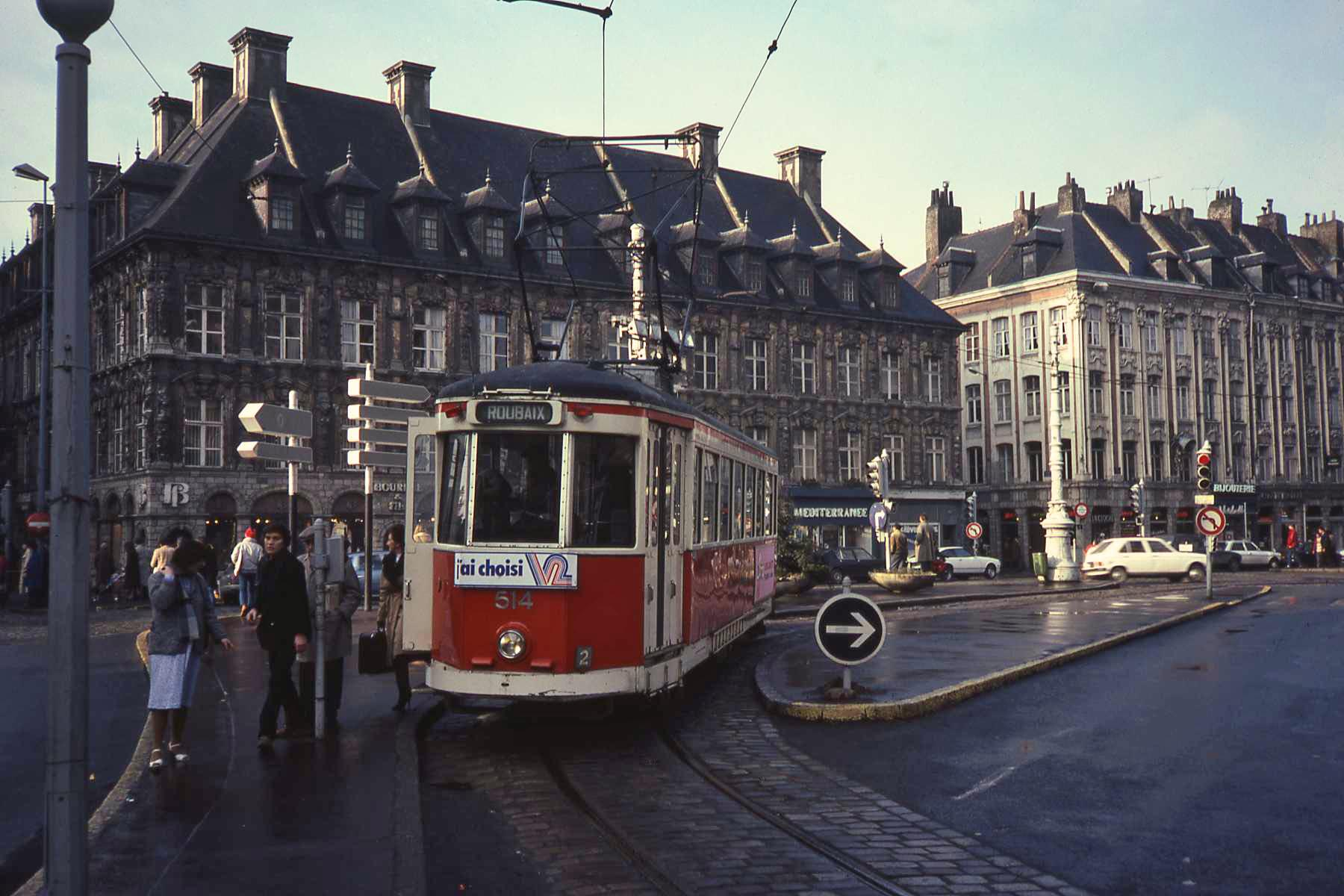 Trams used to have an endloop around the theatre in Lille. These trams and the endpoint have disapeared